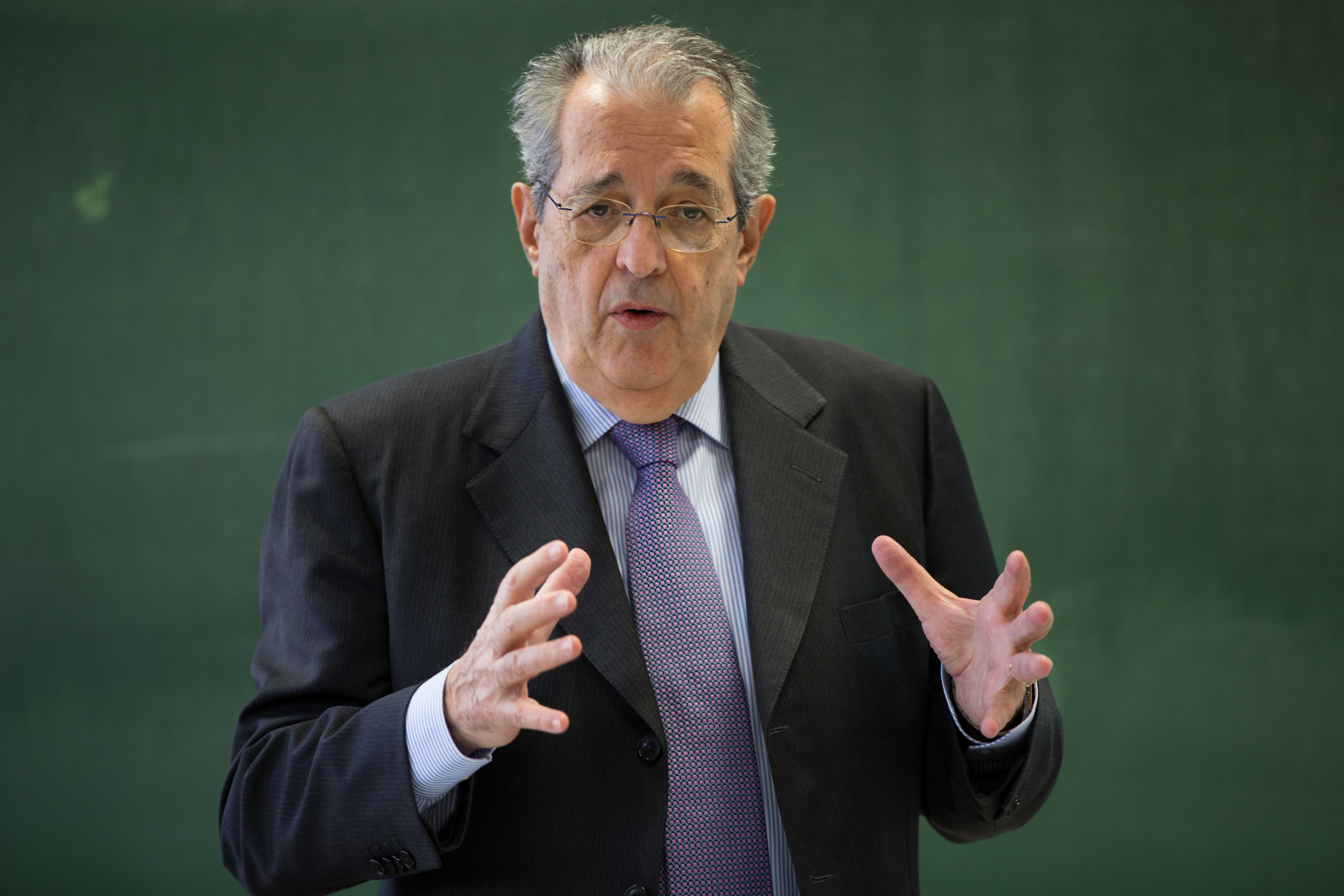 Visit of Mr. Fabrizio Saccomanni - former Italian Minister of Economy and Finance, on Thursday, March 16, 2017 at the Ecole polytechnique